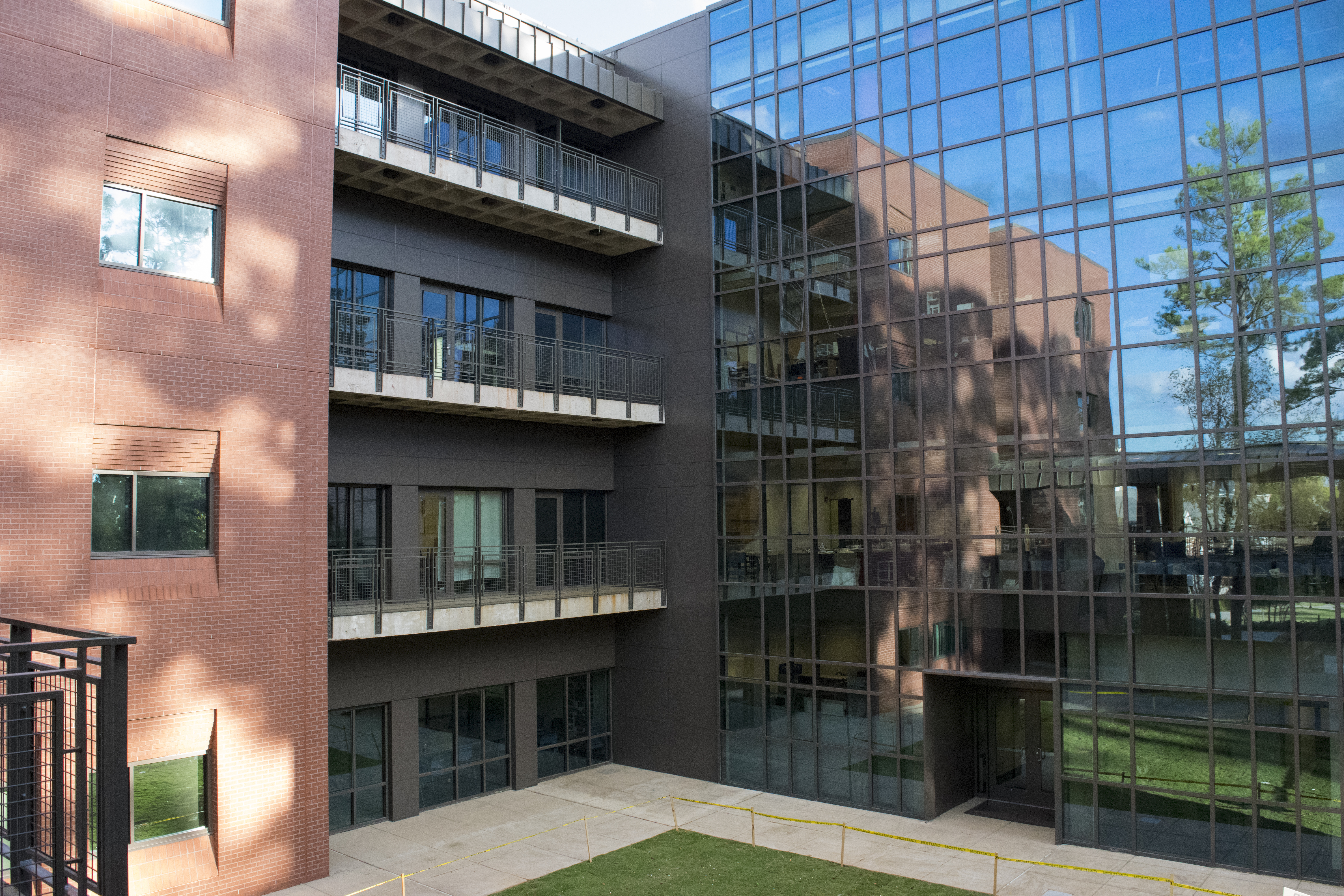 Main Administrative building of the College of Architecture, Design and Construction